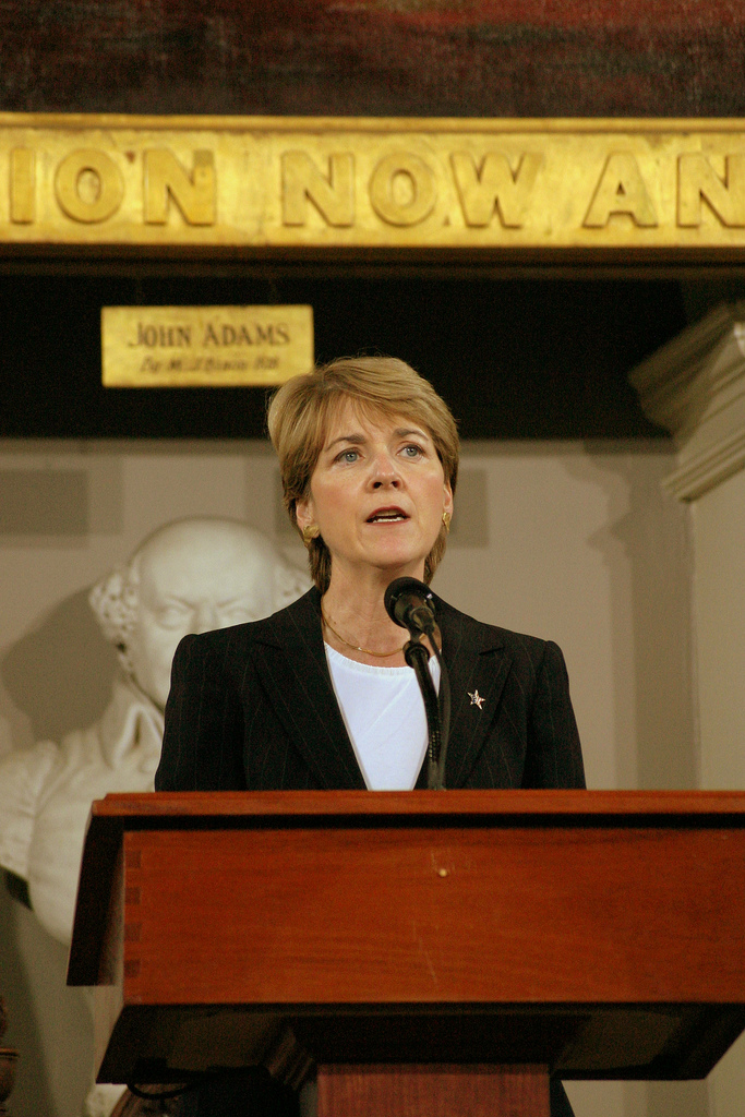 Massachusetts Attorney General Martha Coakley speaking at Faneuil Hall in Boston